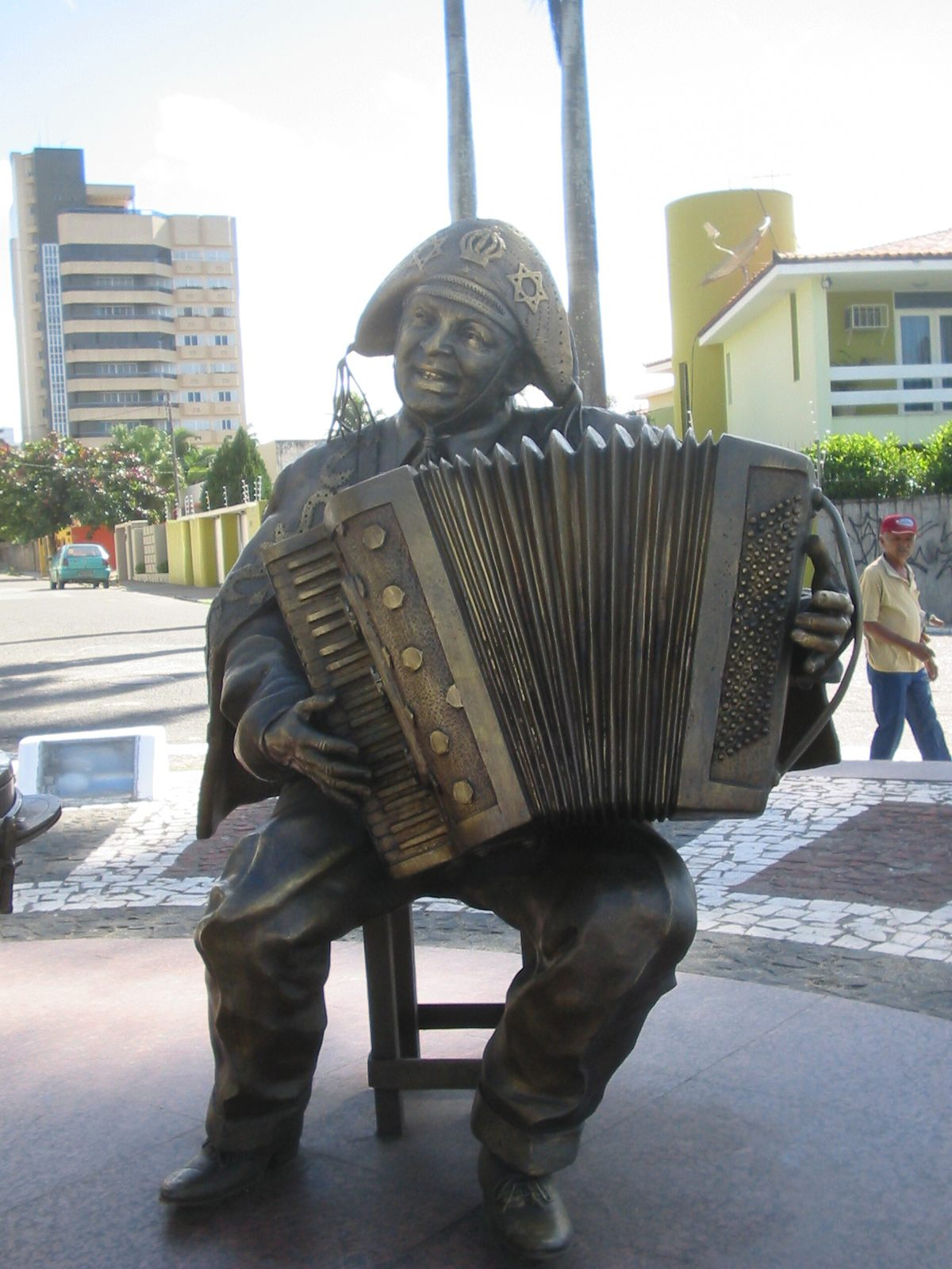 Statue of Luiz Gonzaga. Campina Grande (Paraíba), Brazil.